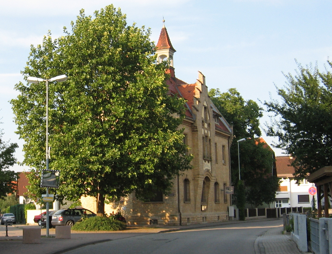 Elchesheim-Illingen